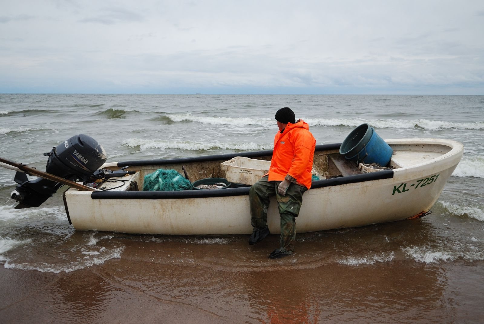 The picture of the fisherman returned after a day fishing in the Baltic Sea near the Klaipeda